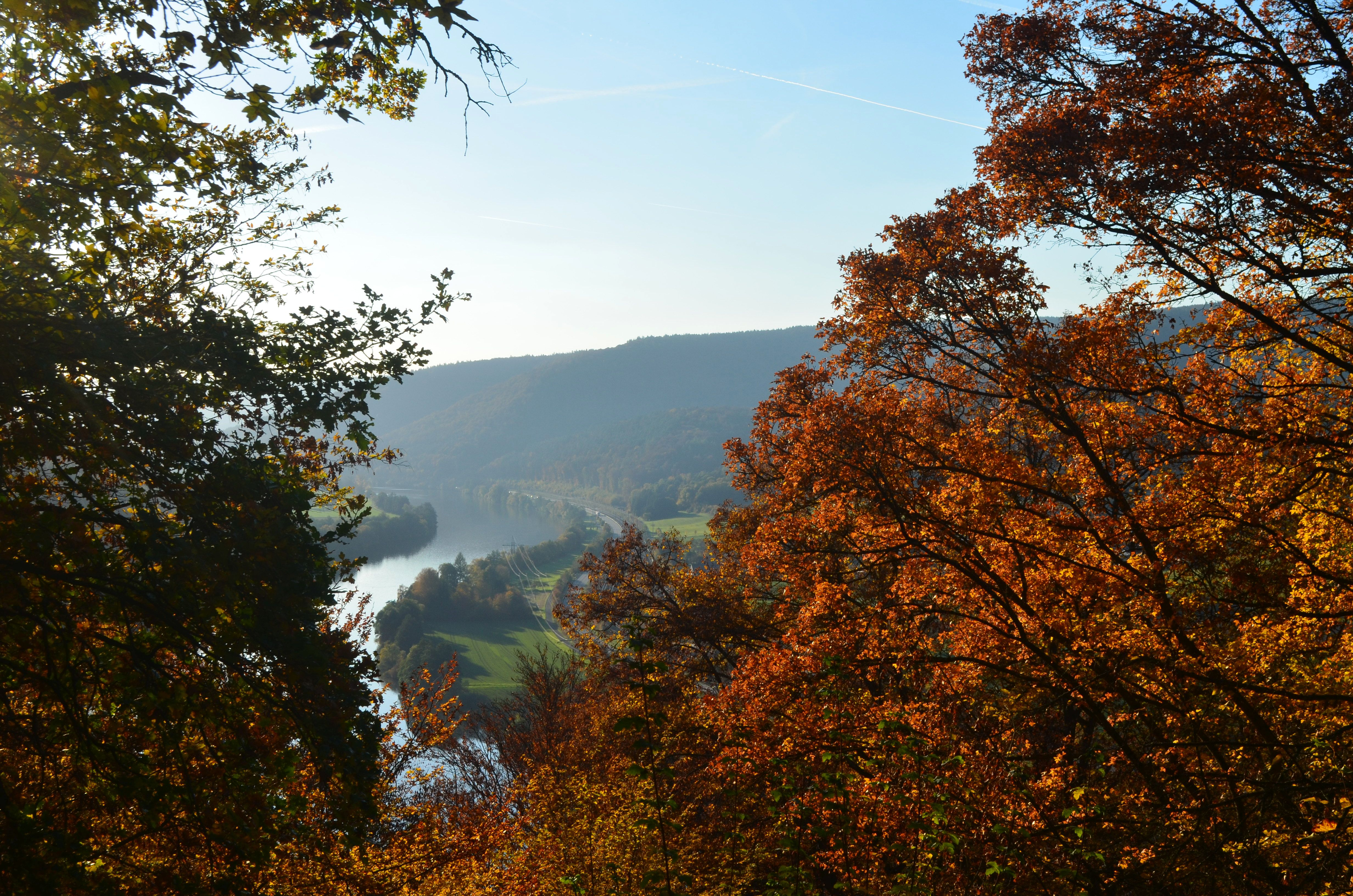 View from ruin Schönrain in autumn 2016